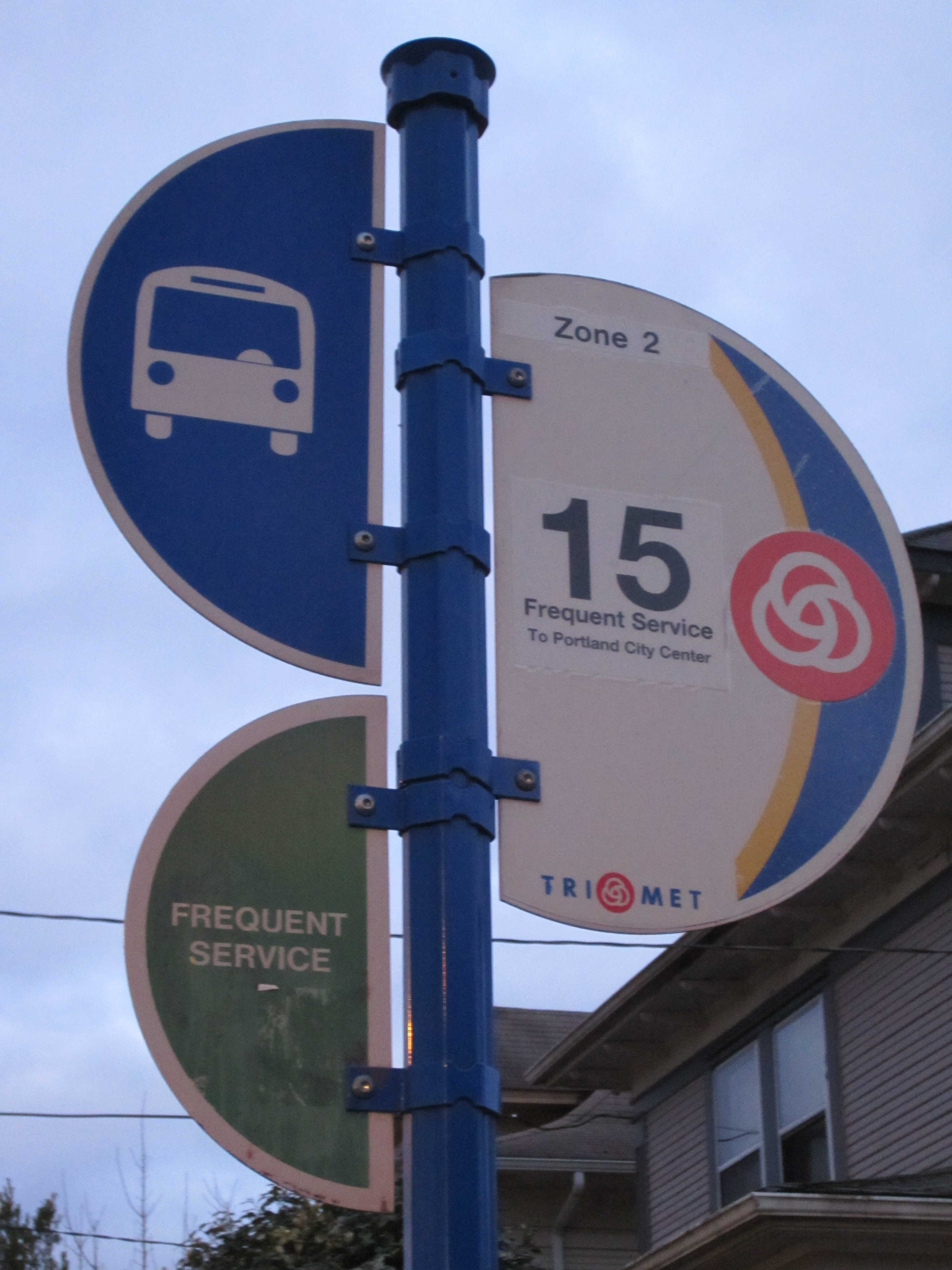 Sign for the Number 15 bus line, operated by TriMet, in southeast Portland, Oregon